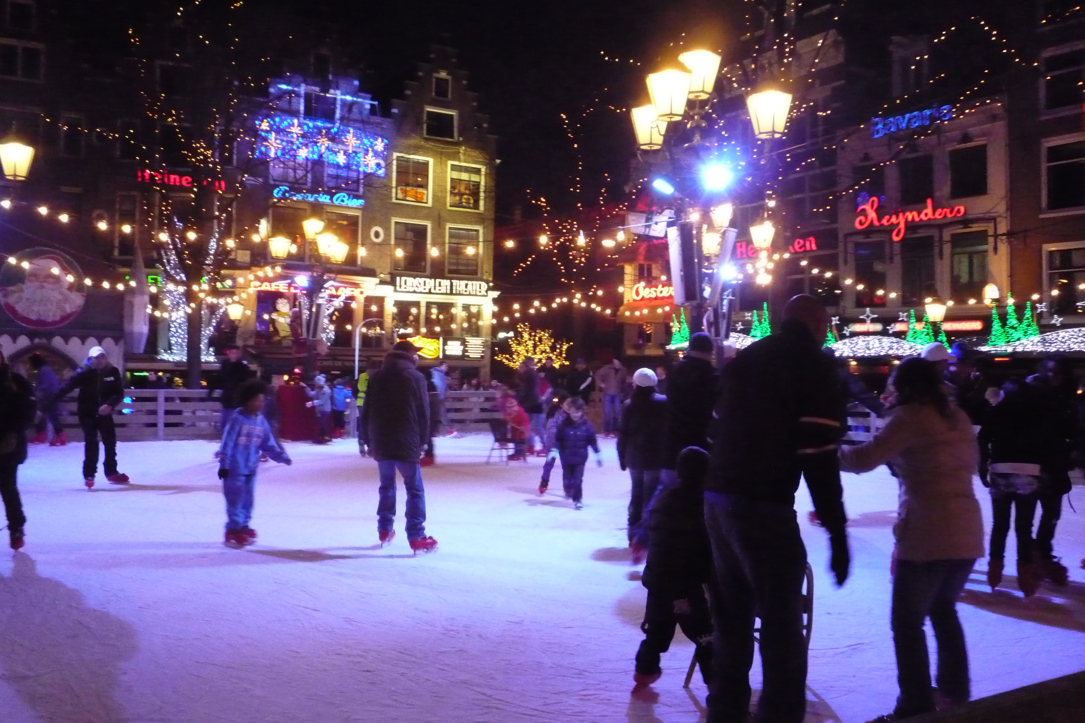 Leidse square, Amsterdam, ice skating